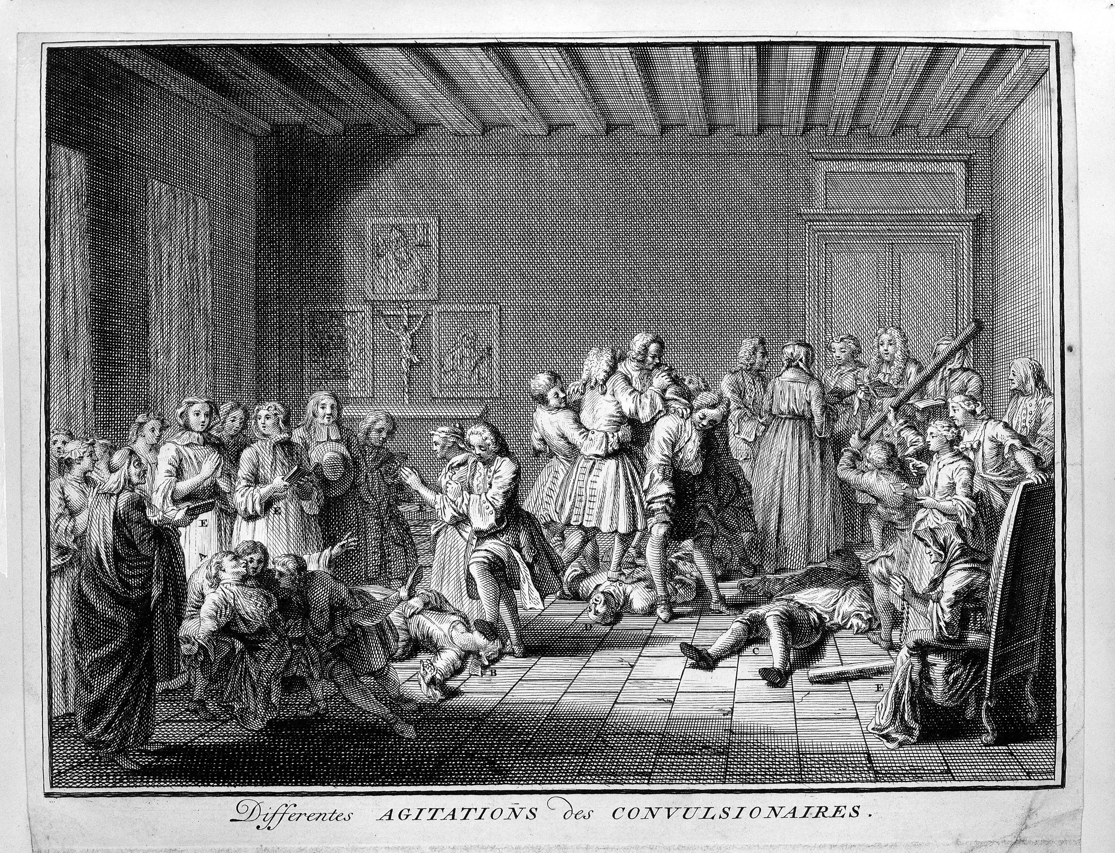 Members of the Jansenist sect having convulsions and spasms as a result of religious fanaticism. Engraving by B. Picart Iconographic Collections Keywords: Psychiatry; Epilepsy; Francois de Paris; B Picard